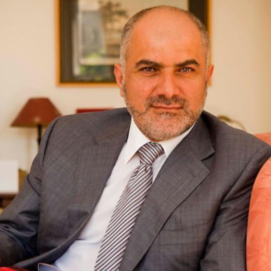 Hares Youssef